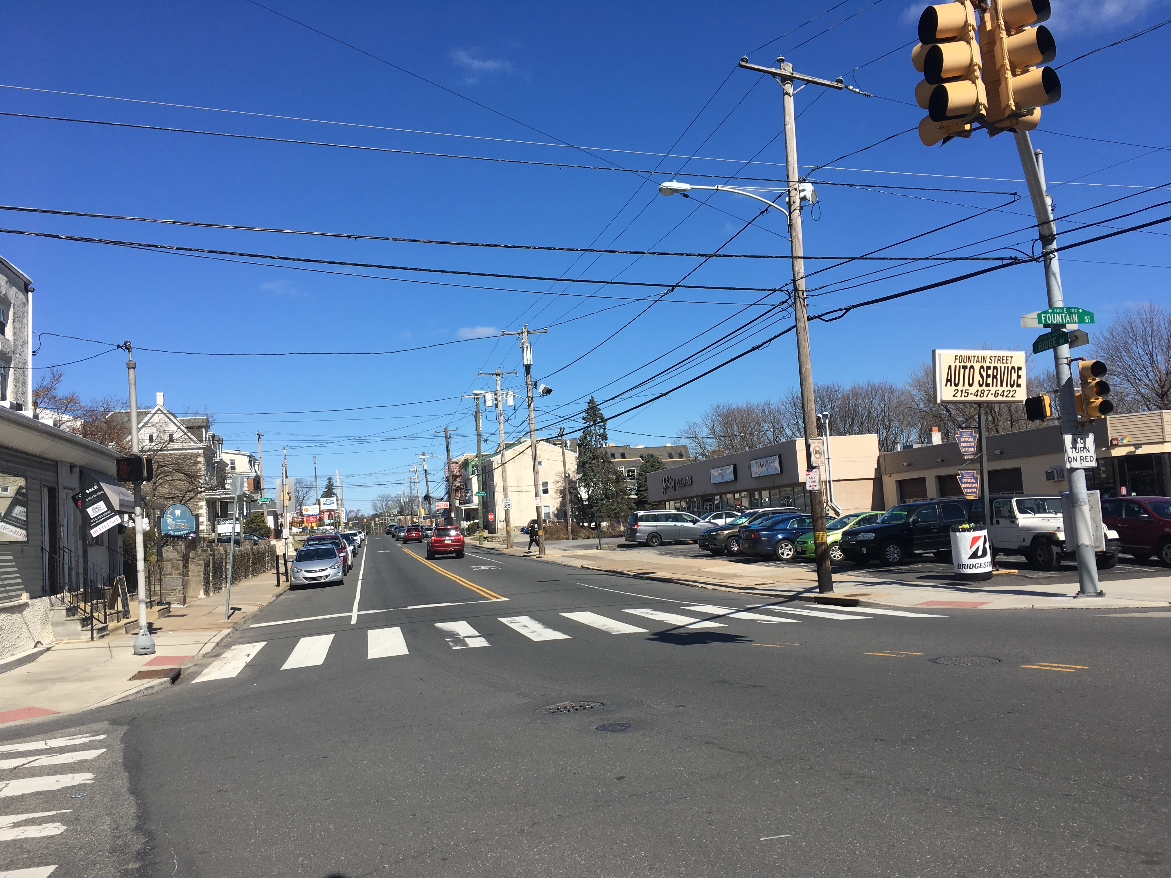 Northbound Ridge Avenue past the intersection with Fountain Street in Philadelphia, Pennsylvania